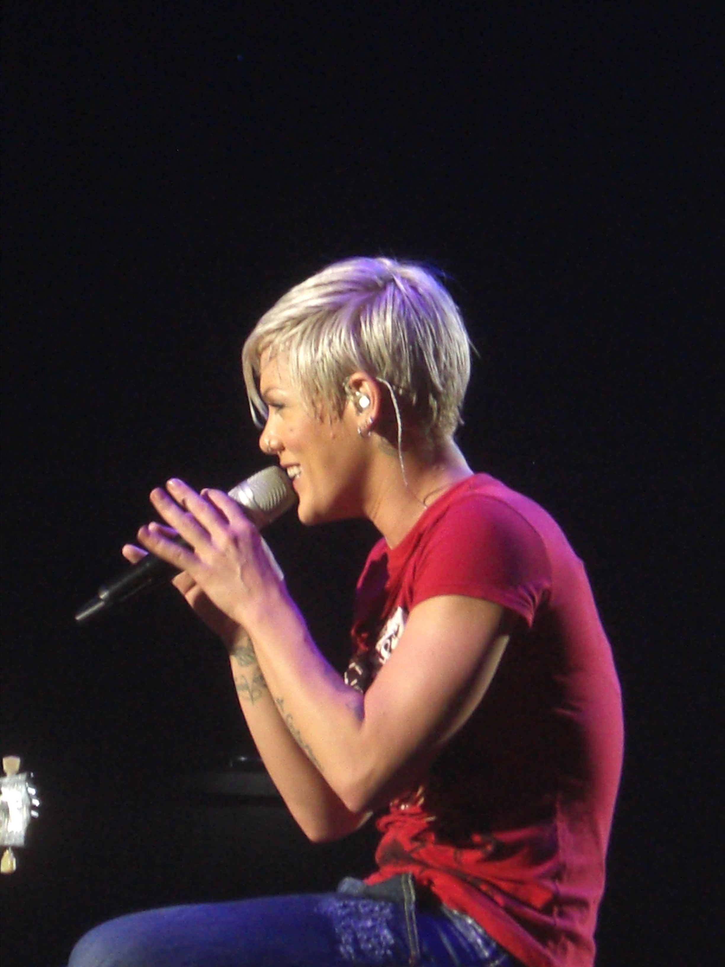 Pink performing at Wiener Stadthalle in Vienna, Austria